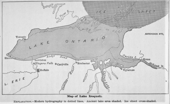 19th century estimate of the boundaries of Lake Iroquois.